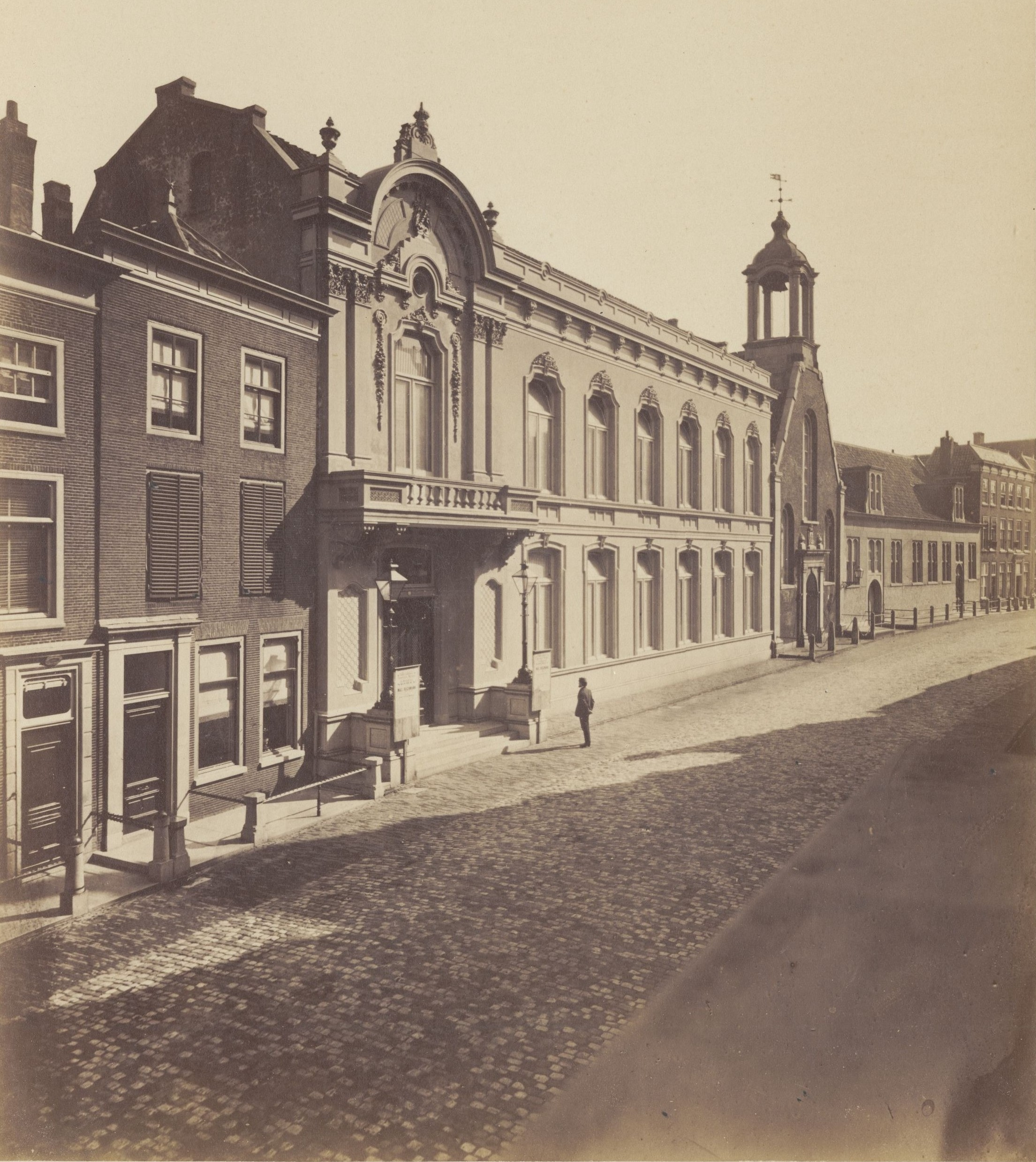 The Leiden municipal concert hall (Stadsgehoorzaal) desgined by J.W. Schaap and built in 1872. It burnt down in 1889 and was consequently replaced by the current building: . Adjacent to the Stadsgehoorzaal the Waalse Kerk (Walloon church) can be seen.